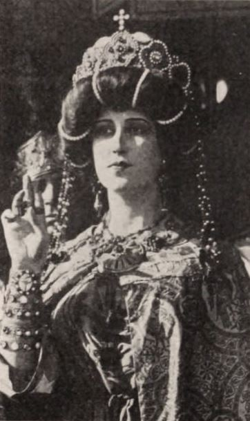 Still from the Italian film Theodora (1921) (Italian: Teodora) with Rita Jolivet, on page 54 of the November 26, 1921 Exhibitors Herald.